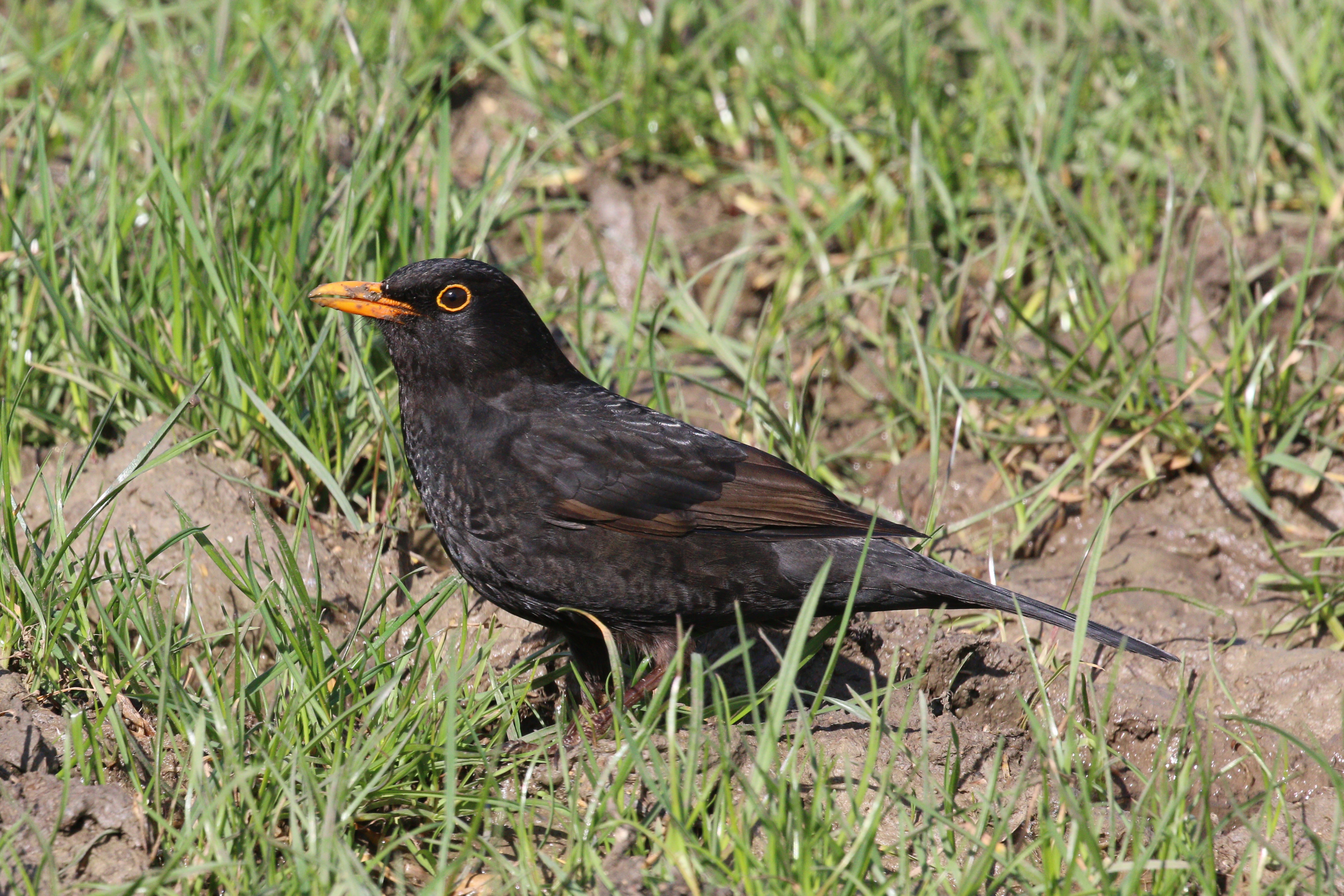 Common blackbird (Turdus merula) male, young adult, Otmoor RSPB Reserve, Oxfordshire